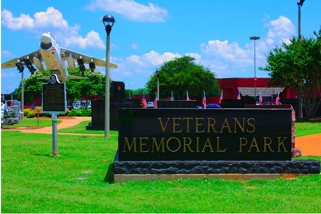 Veterans Memorial Park in Tuscaloosa, AL.